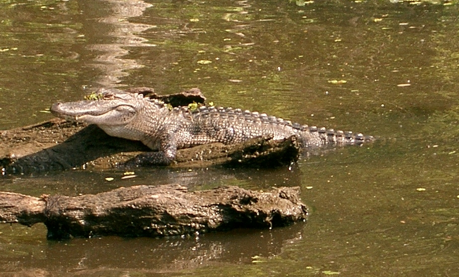 alligator en Louisiane - bayou Lafourche self made Pra